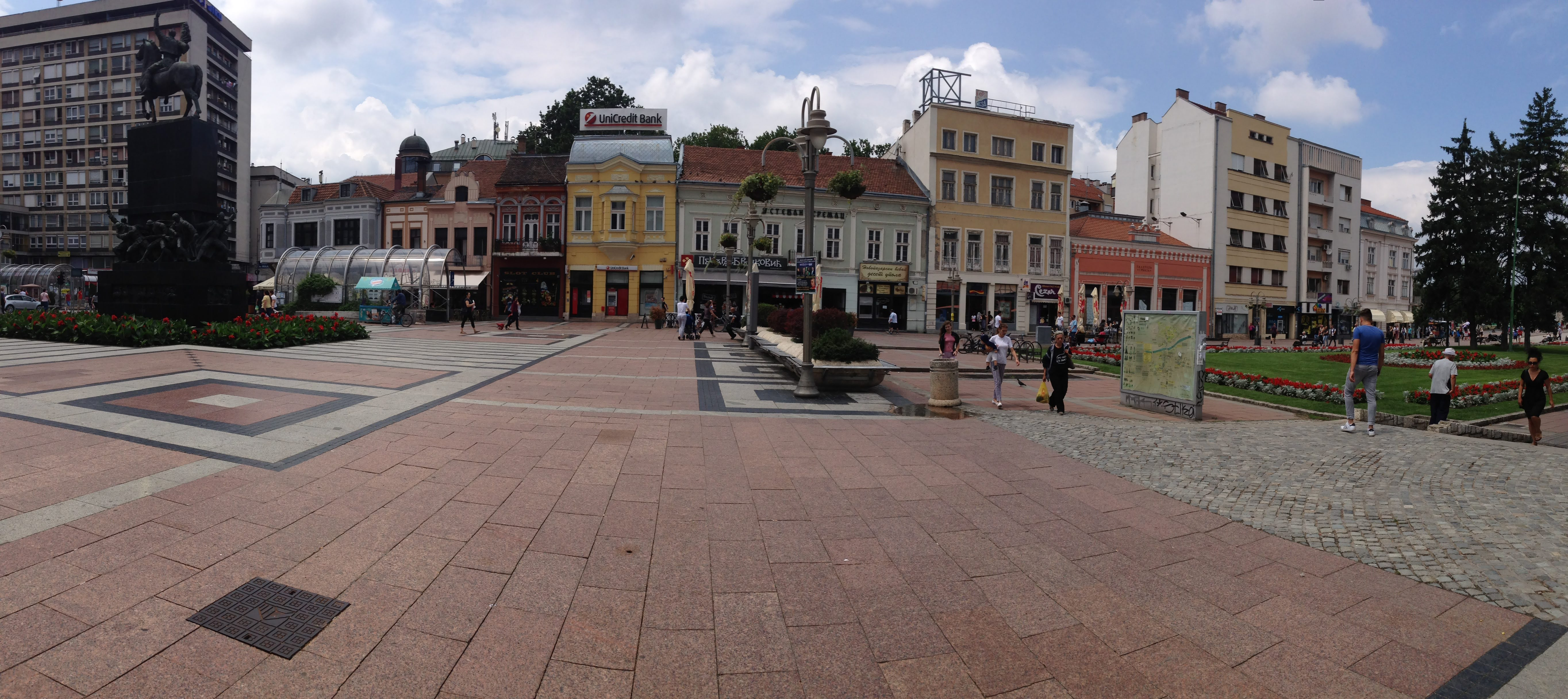 Panorama picture of the square of king Milan in Niš, Serbia